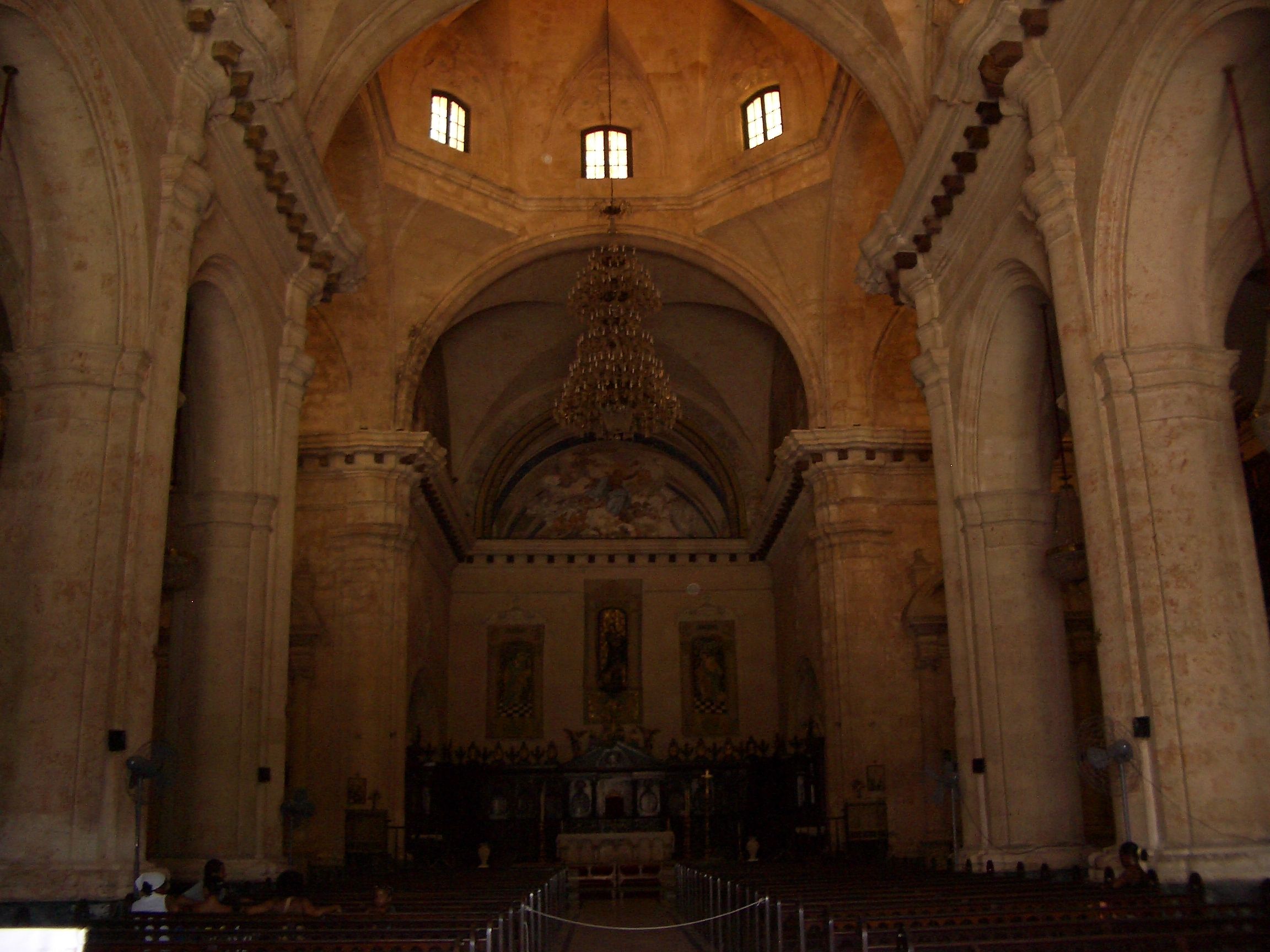 Interior of the Cathedral of Havana, Havana, Cuba